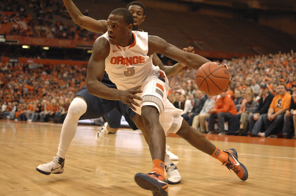 Dion Waiters during his sophomore season at Syracuse, 01/16/12 vs Pittsburgh.